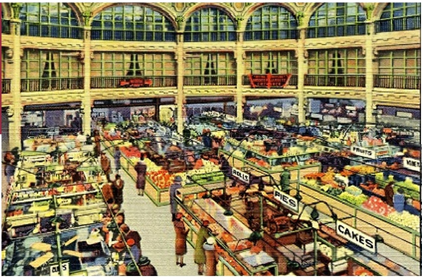 A reproduction of a color post card, depicting the Dayton Arcade Market in the 1920's